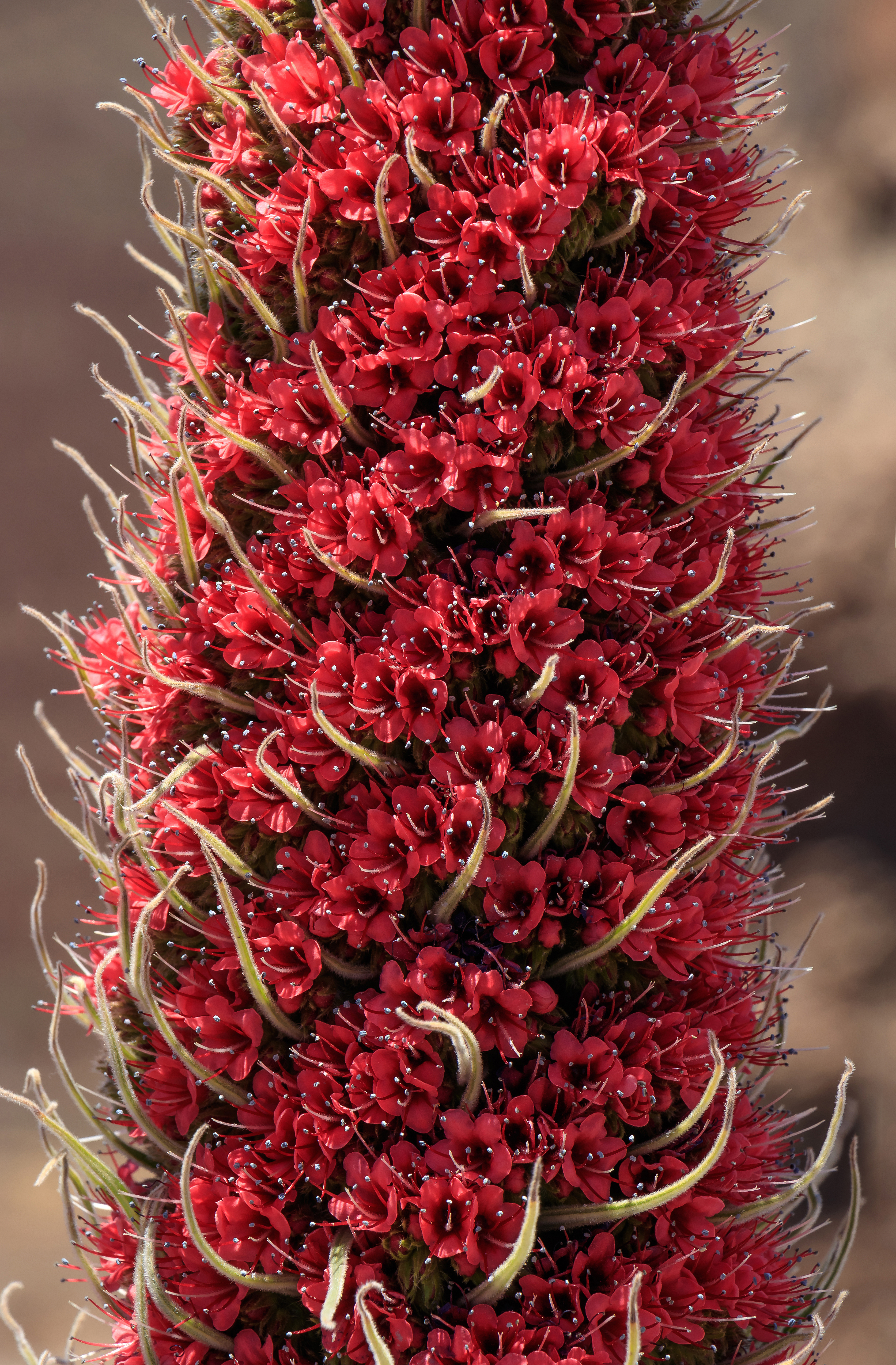 Echium wildpretii wildpretii H.Pearson ex Hook.f. (1902), Tower of Jewels, part of the inflorescence; Caldera de las Cañadas, Tenerife, Canary Islands, Spain.